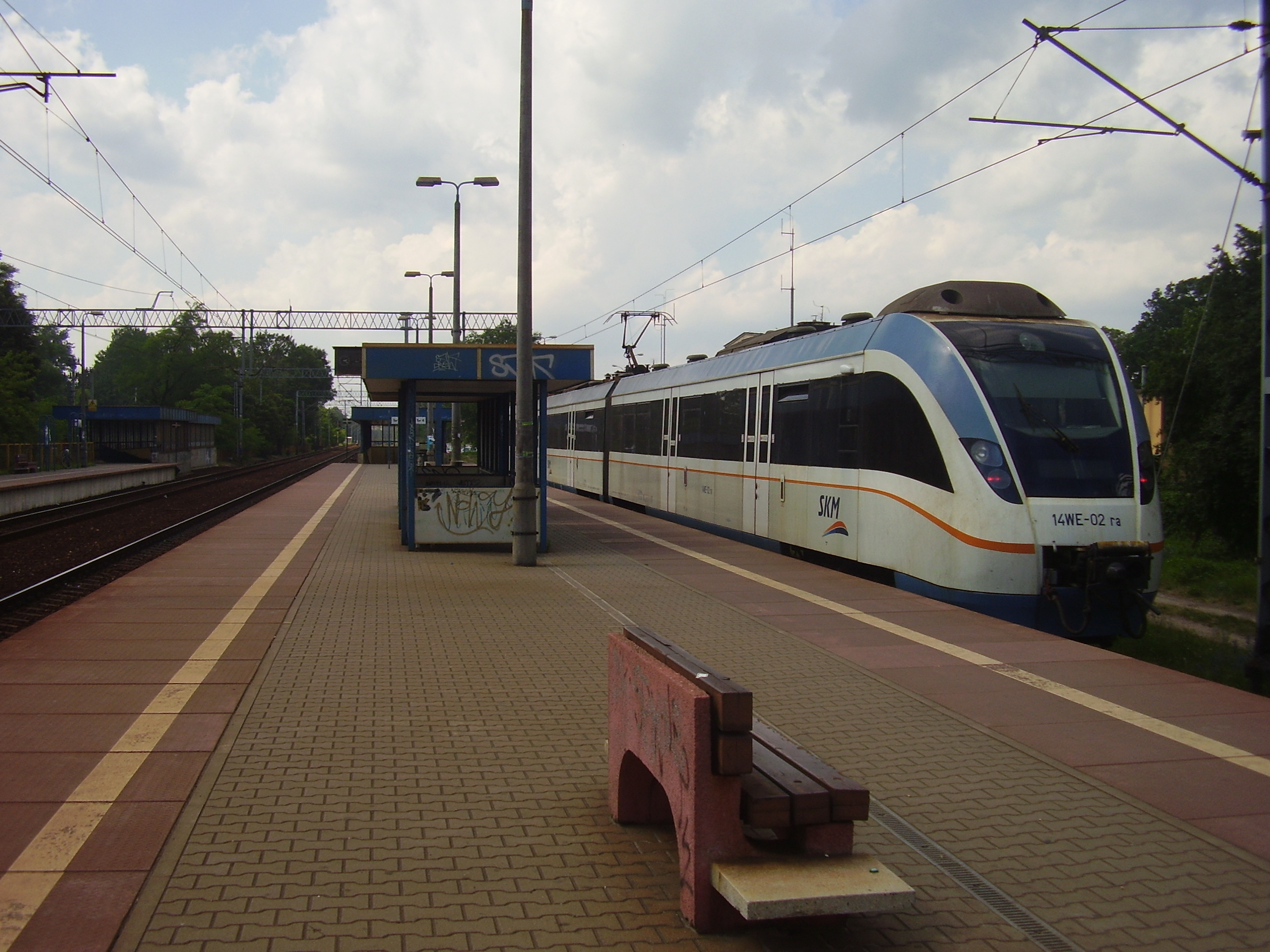 Sulejówek Miłosna train station. Platform 2.